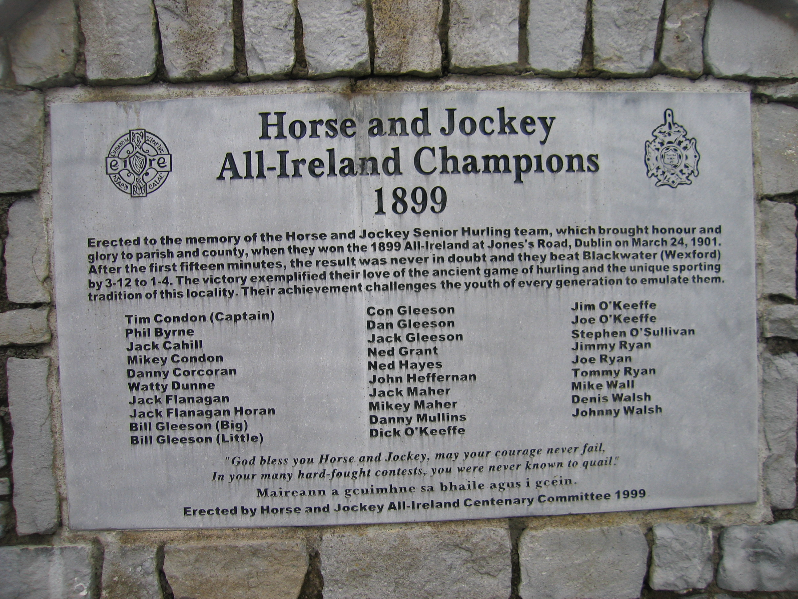 Horse & Jockey All-Ireland Champs at 29-man-hurling; on N62 roadside in The Village